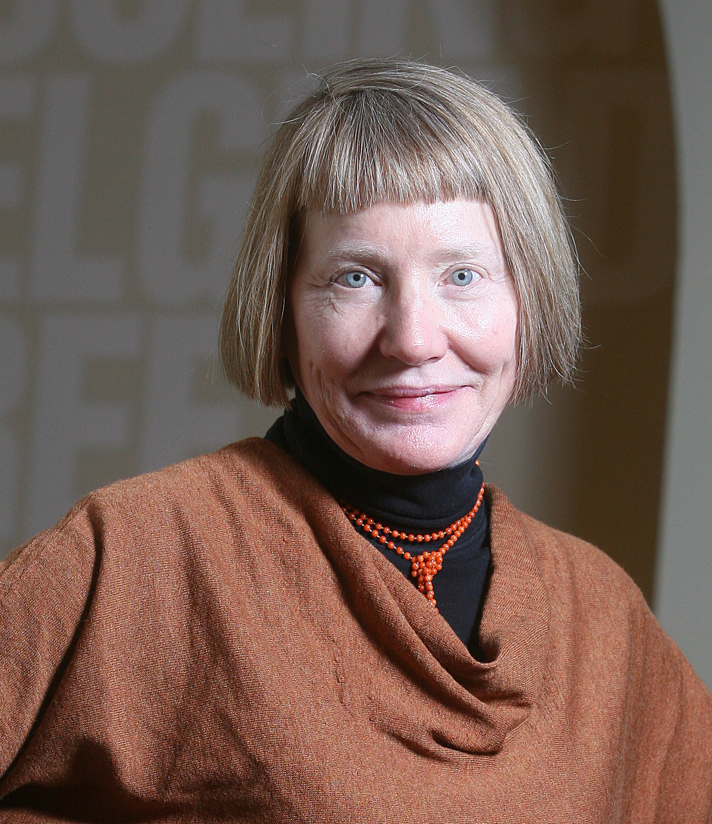 This photo of artist Lynn Marie Kirby was taken at the opening of her show in Belgrade, Serbia in front of a piece she collaborated on.